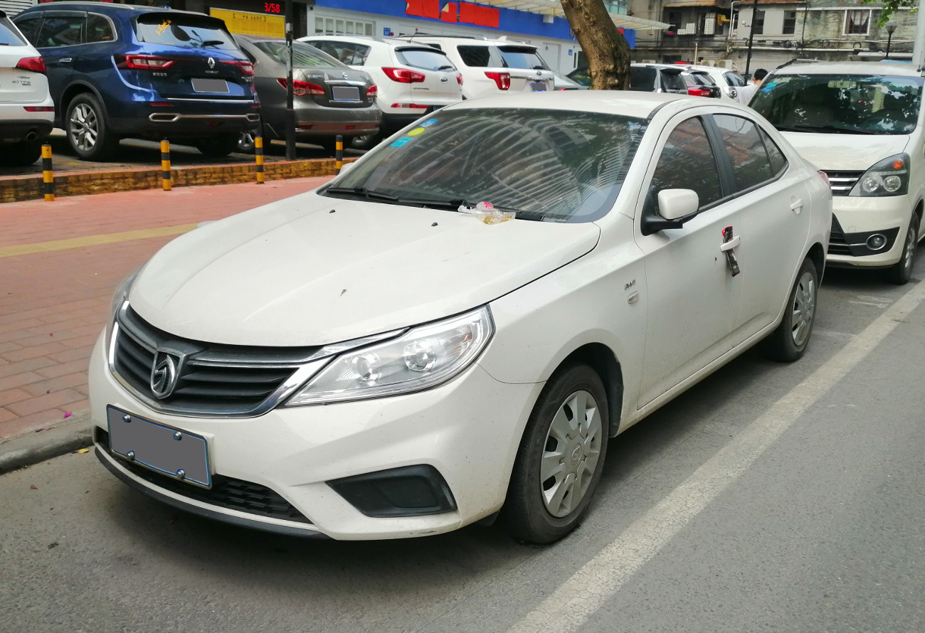 Baojun 630 facelift photographed in Guangzhou, Guangdong province, China.